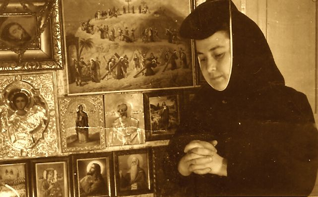 Mother Veronica in prayer